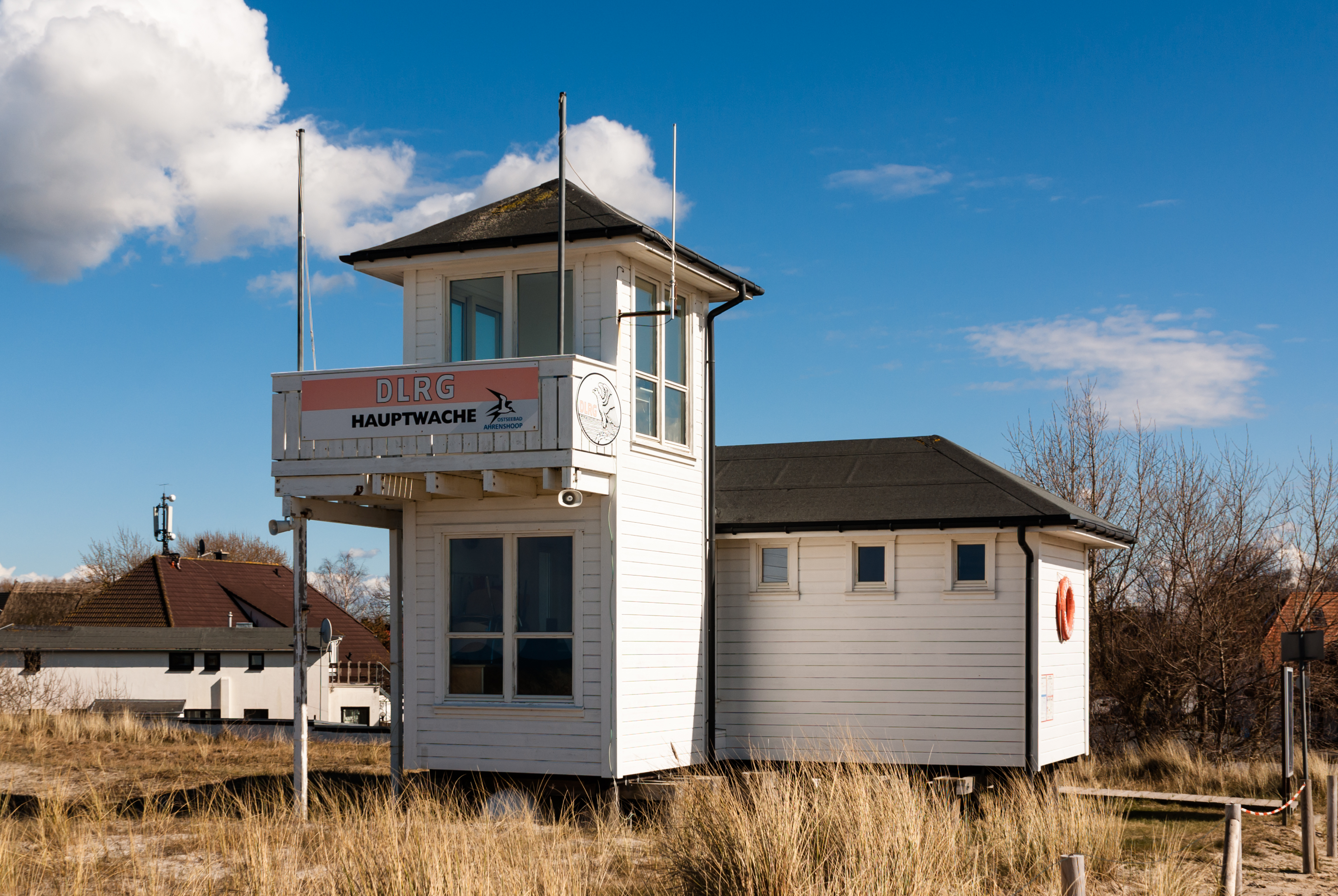 A lifeguard station in Ahrenshoop, Germany